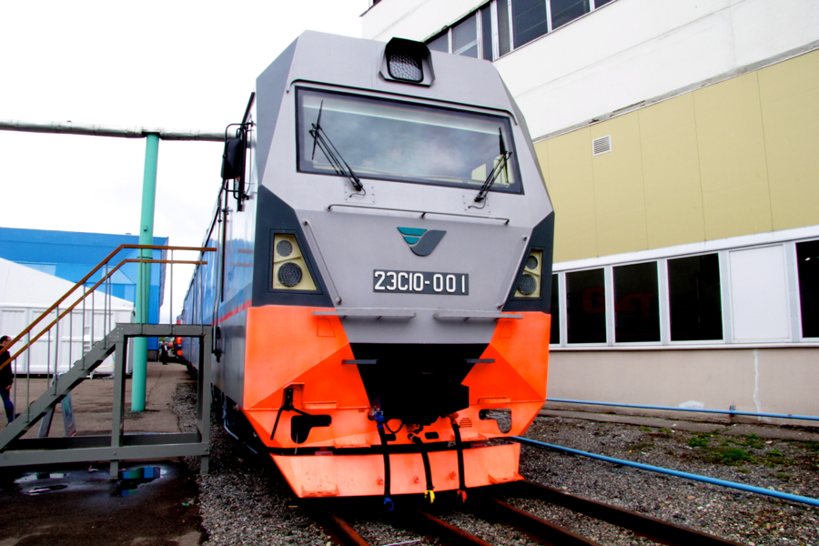 Electric locomotive ES10.